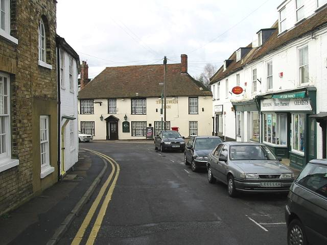 The Swan Inn, High Street, Sturry